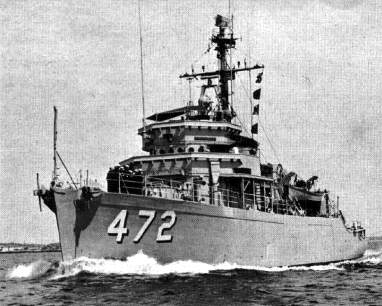 The U.S. Navy ocean minesweeper USS Valor (MSO-472) passing through the Strait of Gibraltar while pulling duty with the Belgian Navy, circa 1959.